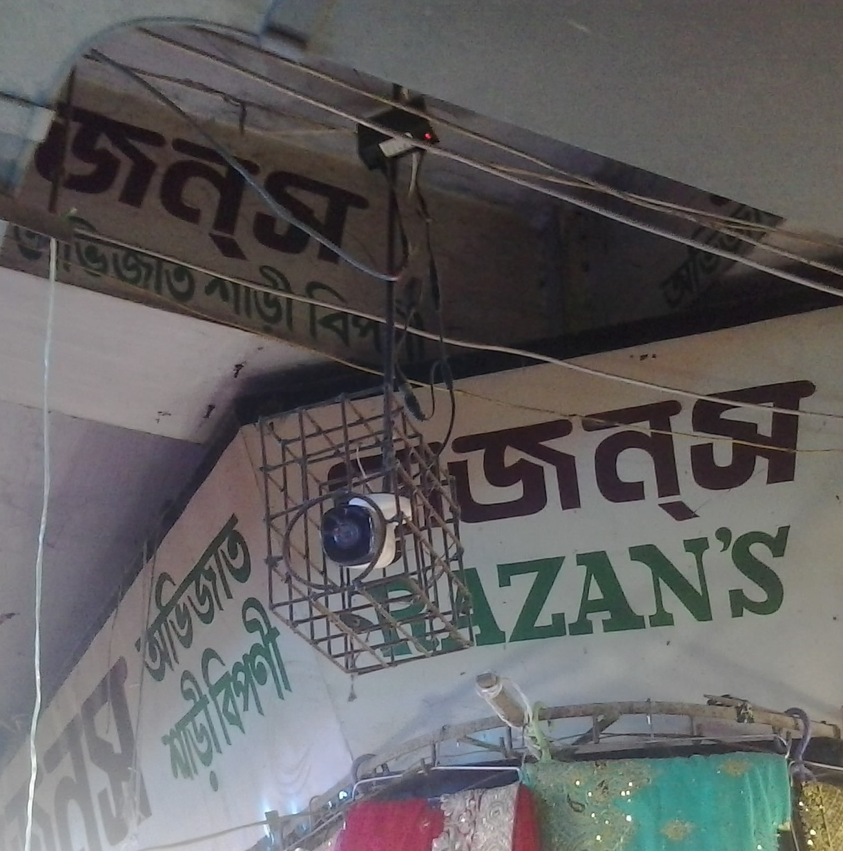 I took this photo from Taltola Market.